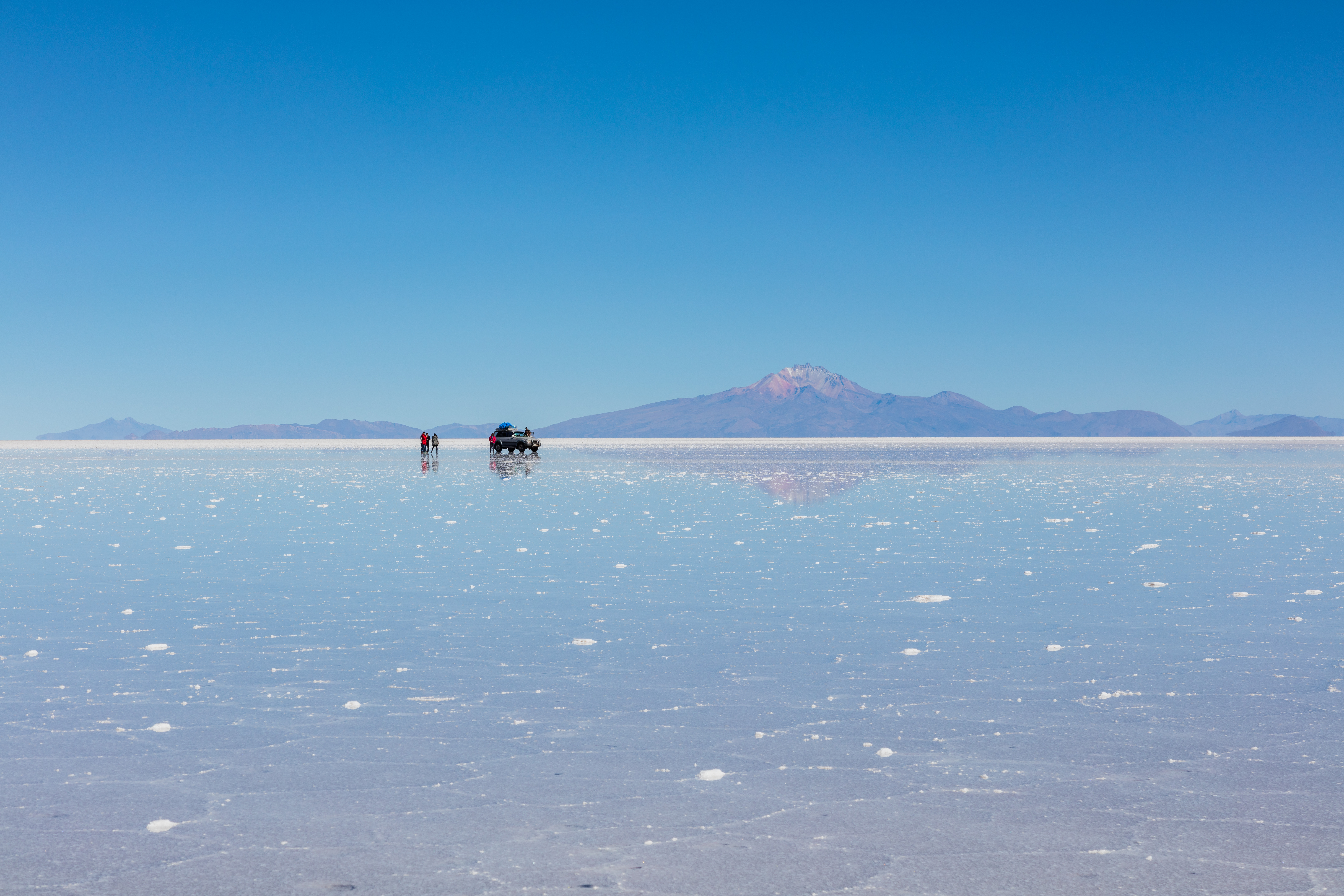 Salt flat of Uyuni, Bolivia